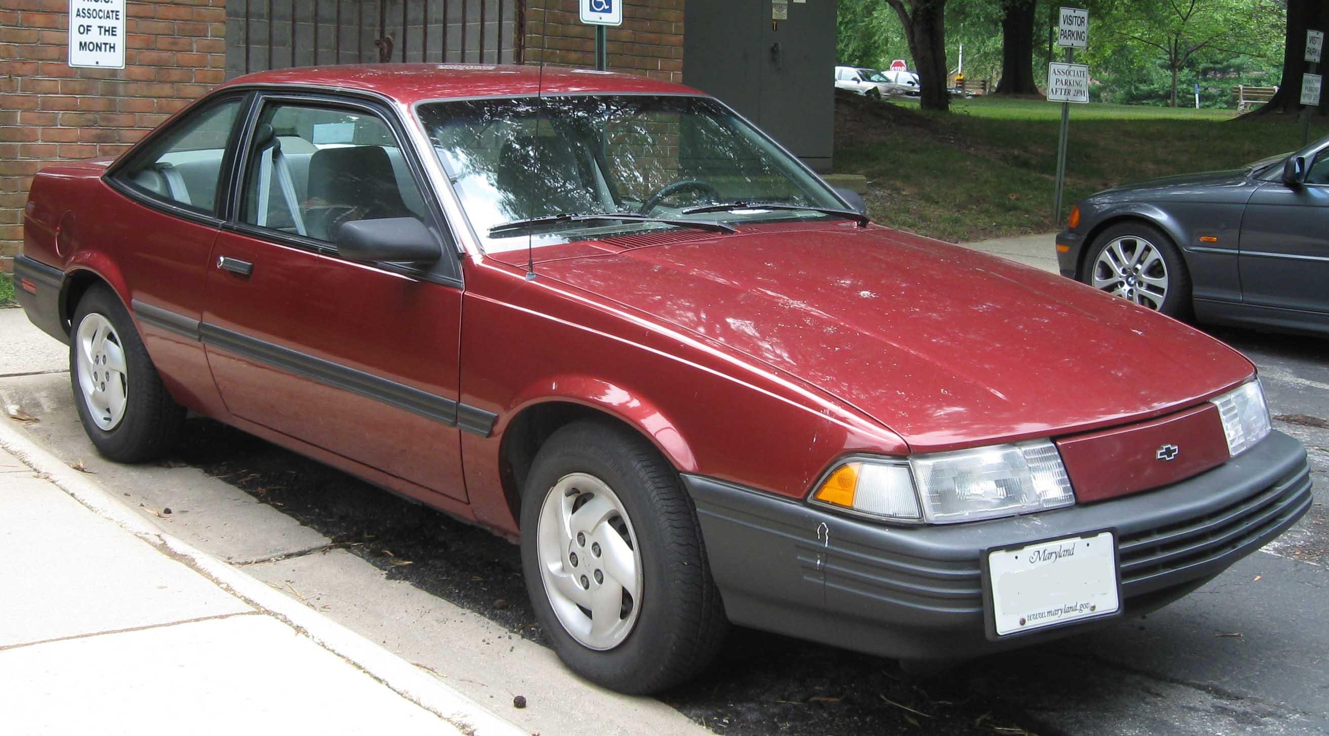 1991-1994 Chevrolet Cavalier photographed in Gaithersburg, Maryland, USA.